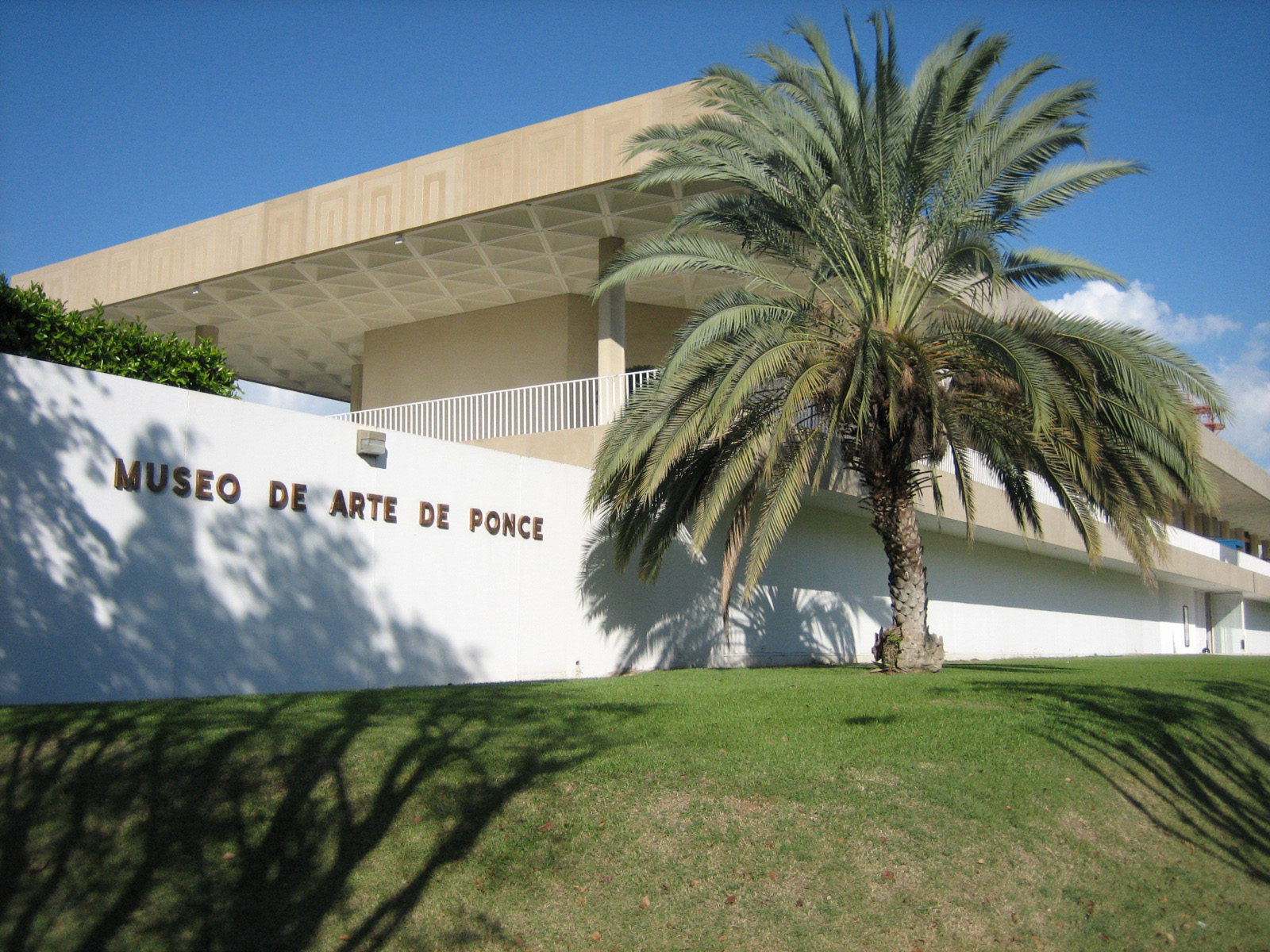 An exterior view of the Museo de Arte in Ponce, Puerto Rico.